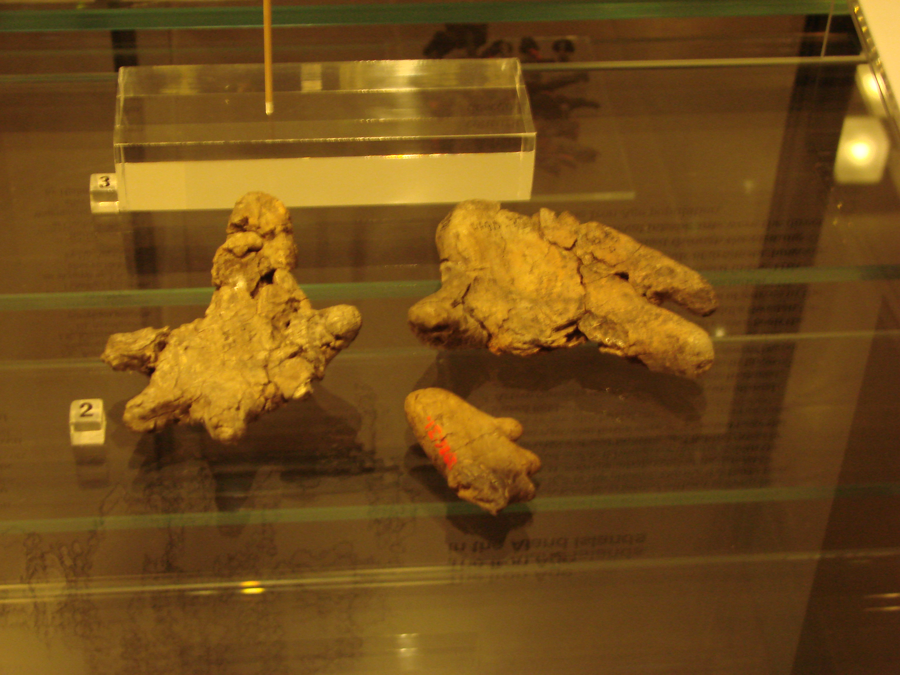 Ritual stone age clay bear paws from the Åland islands.